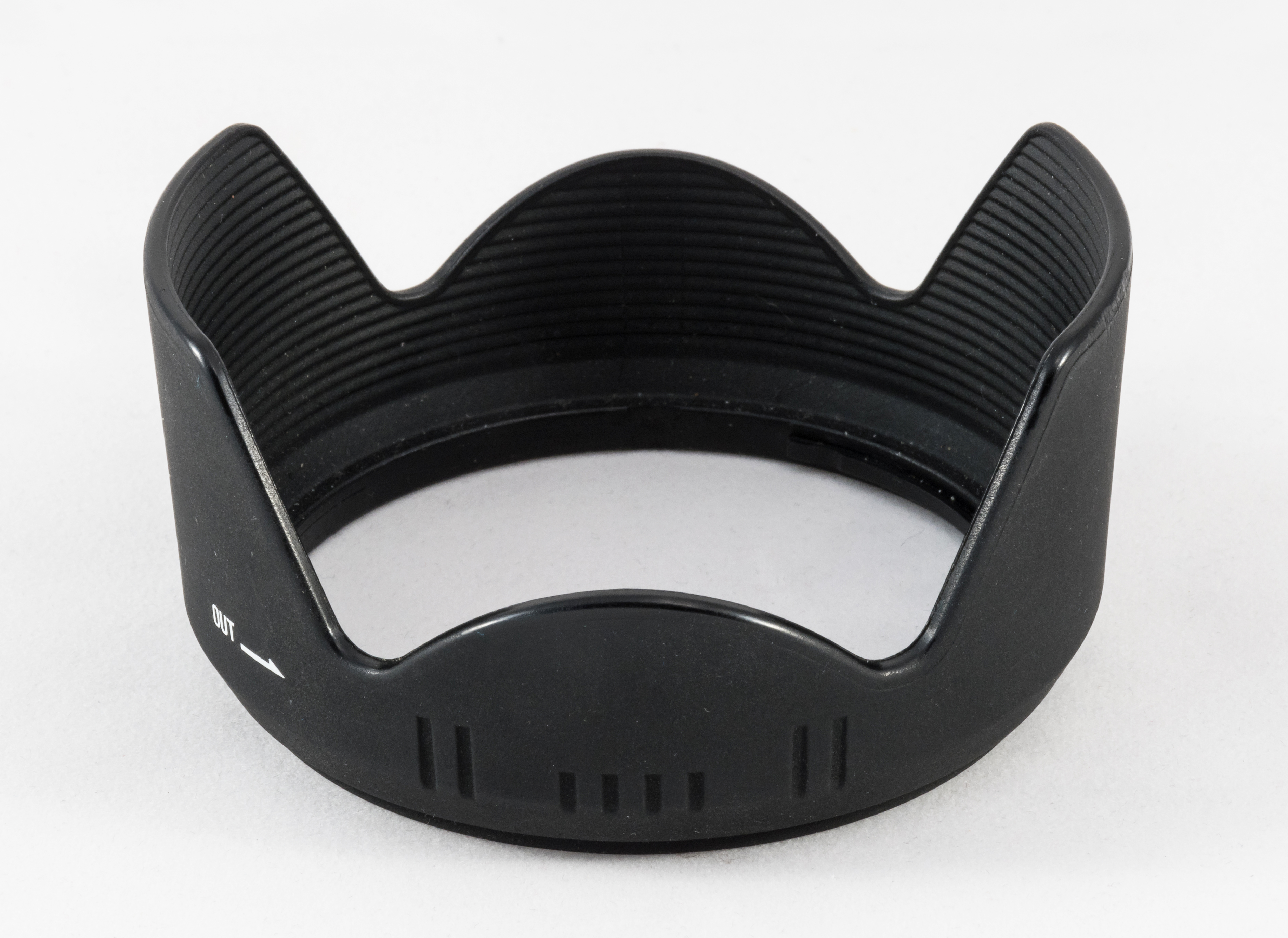 Lens hood